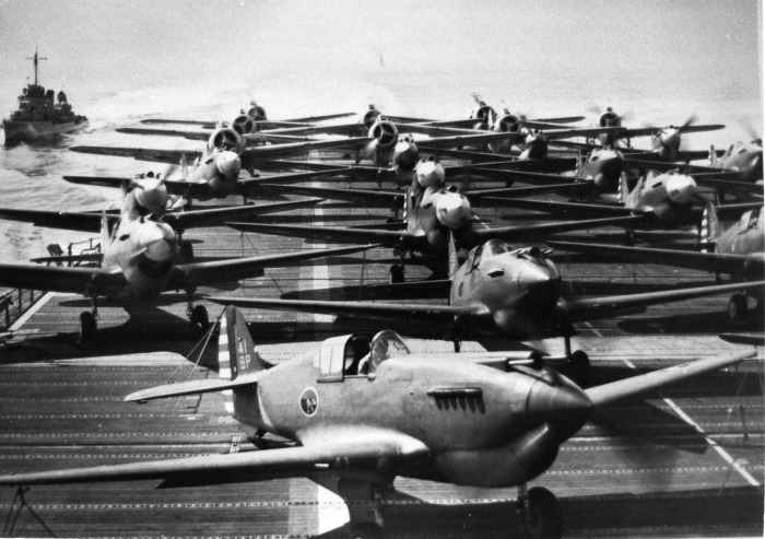 P-40Bs of 33rd Pursuit Squadron, 8th Pursuit Group aboard USS Wasp, October 1940. Taken from the Ray Wagner Collection.